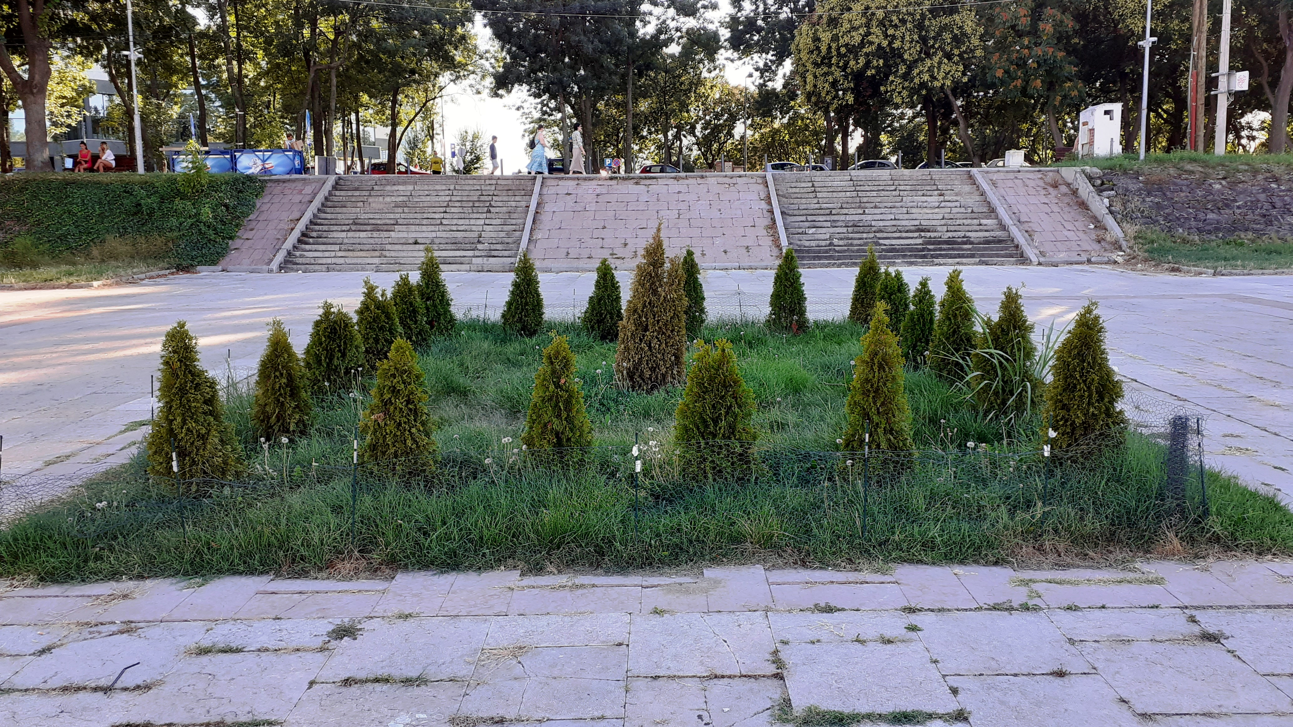 Promenade by the Sava, Ušće Park, New Belgrade